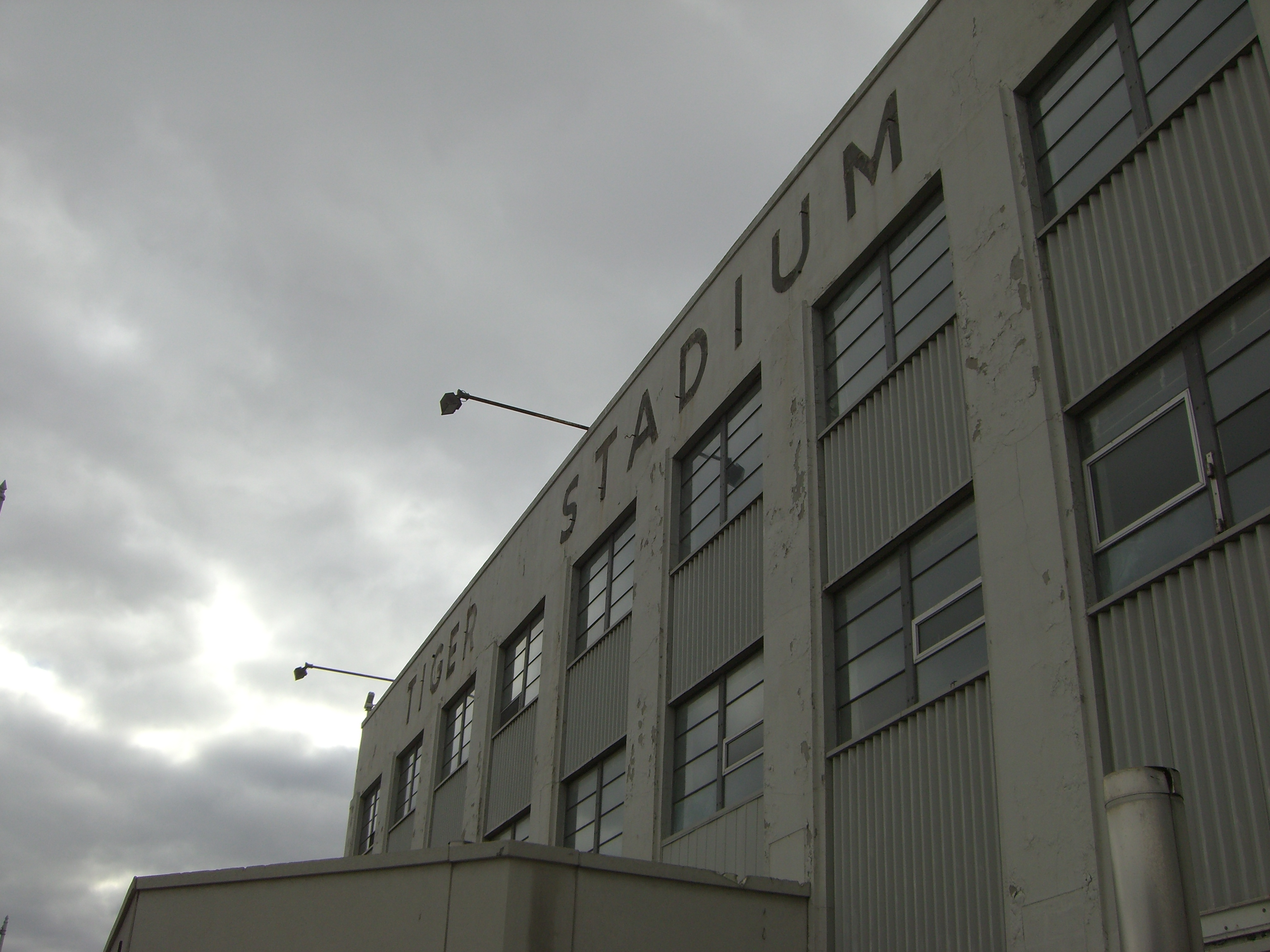 The facade of Tiger Stadium in Detroit, Michigan, United States, while the building is undergoing decommissioning.